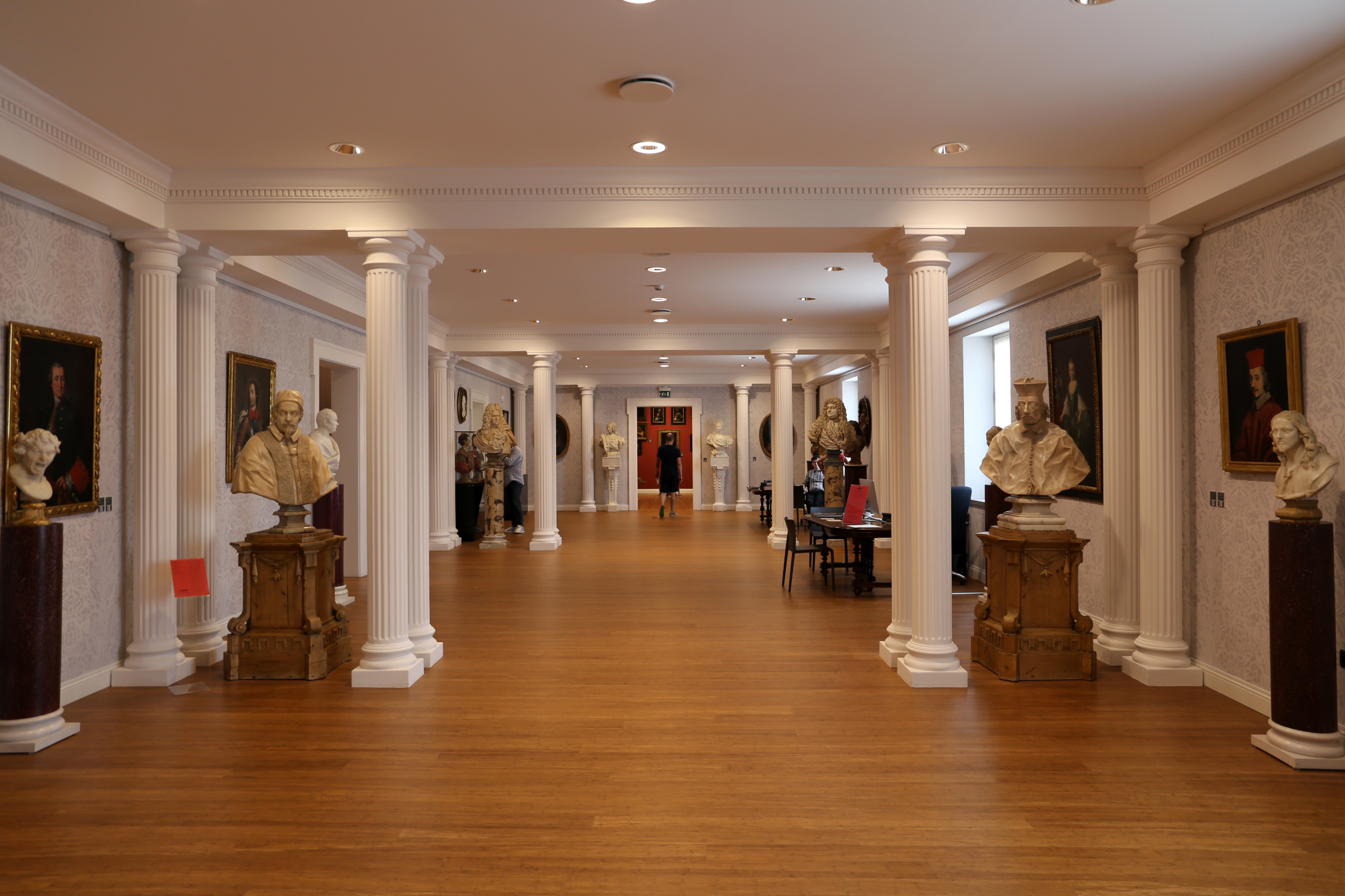 Franco Maria Ricci's collection